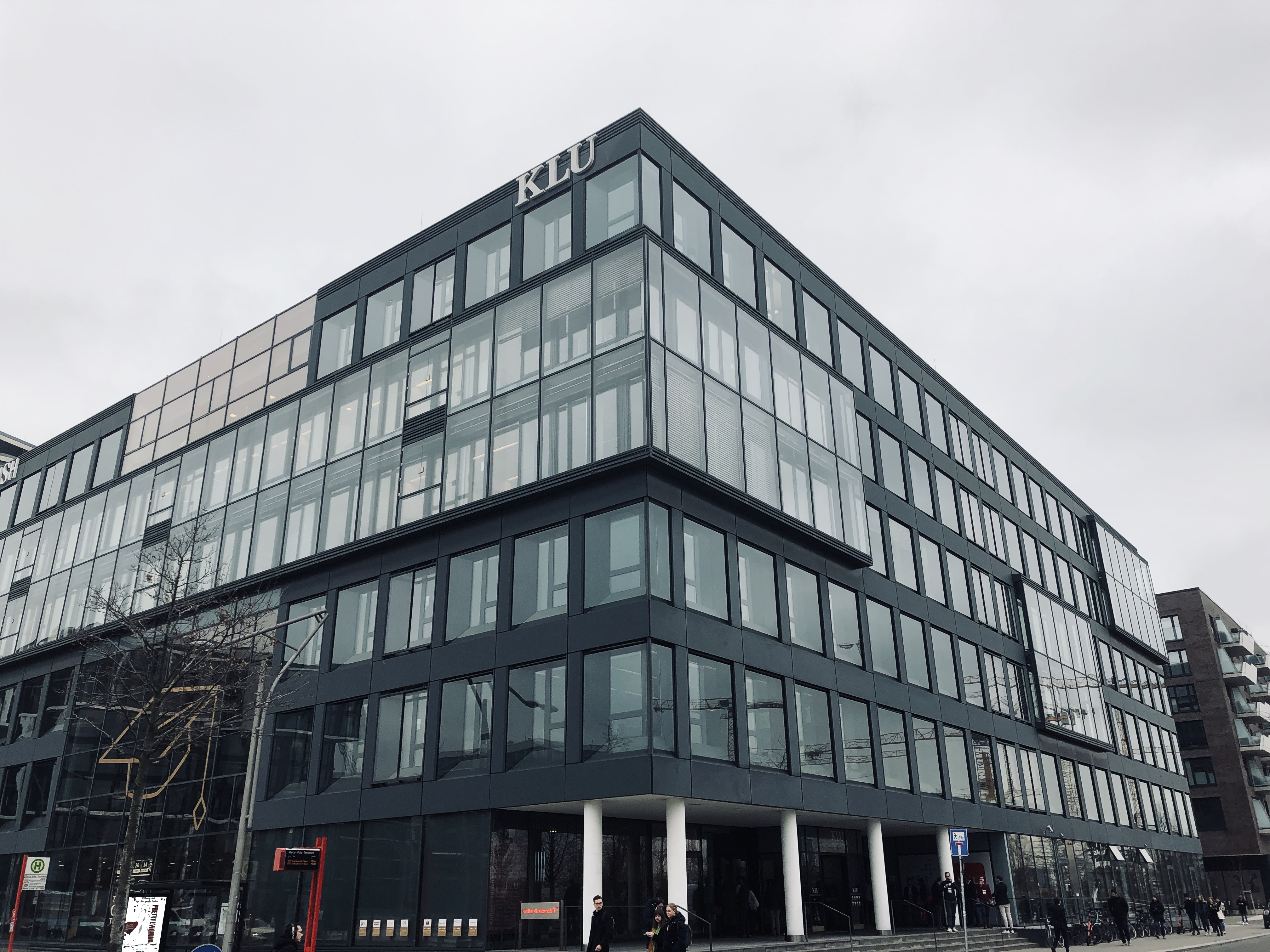 Kühne Logistics University (KLU) located in HafenCity of Hamburg